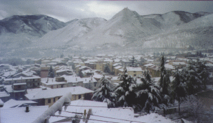 Panorama of Montella under the snow.